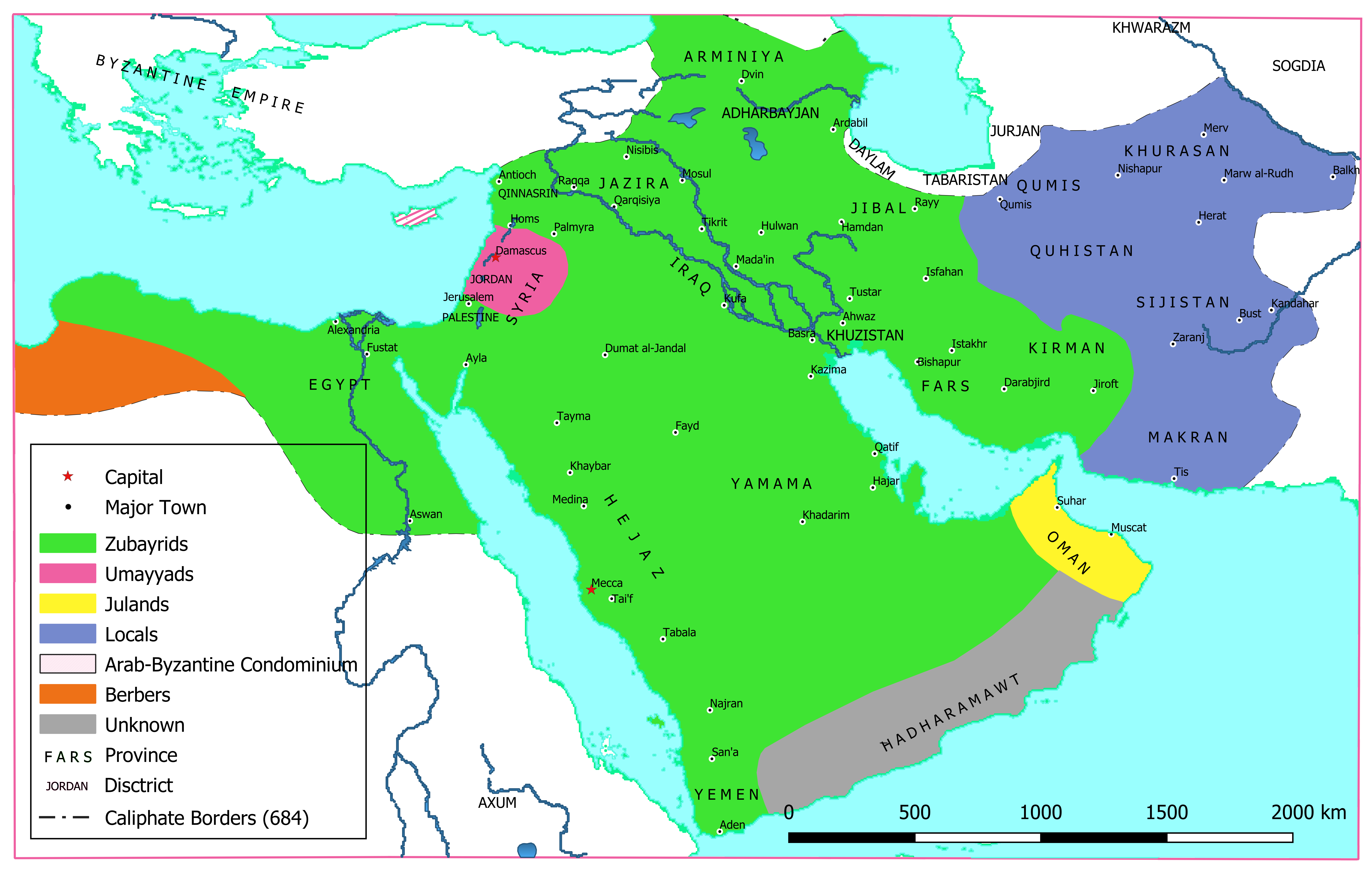 Approximate map of areas under Ibn al-Zubayr's control after the death of Muawiya II.